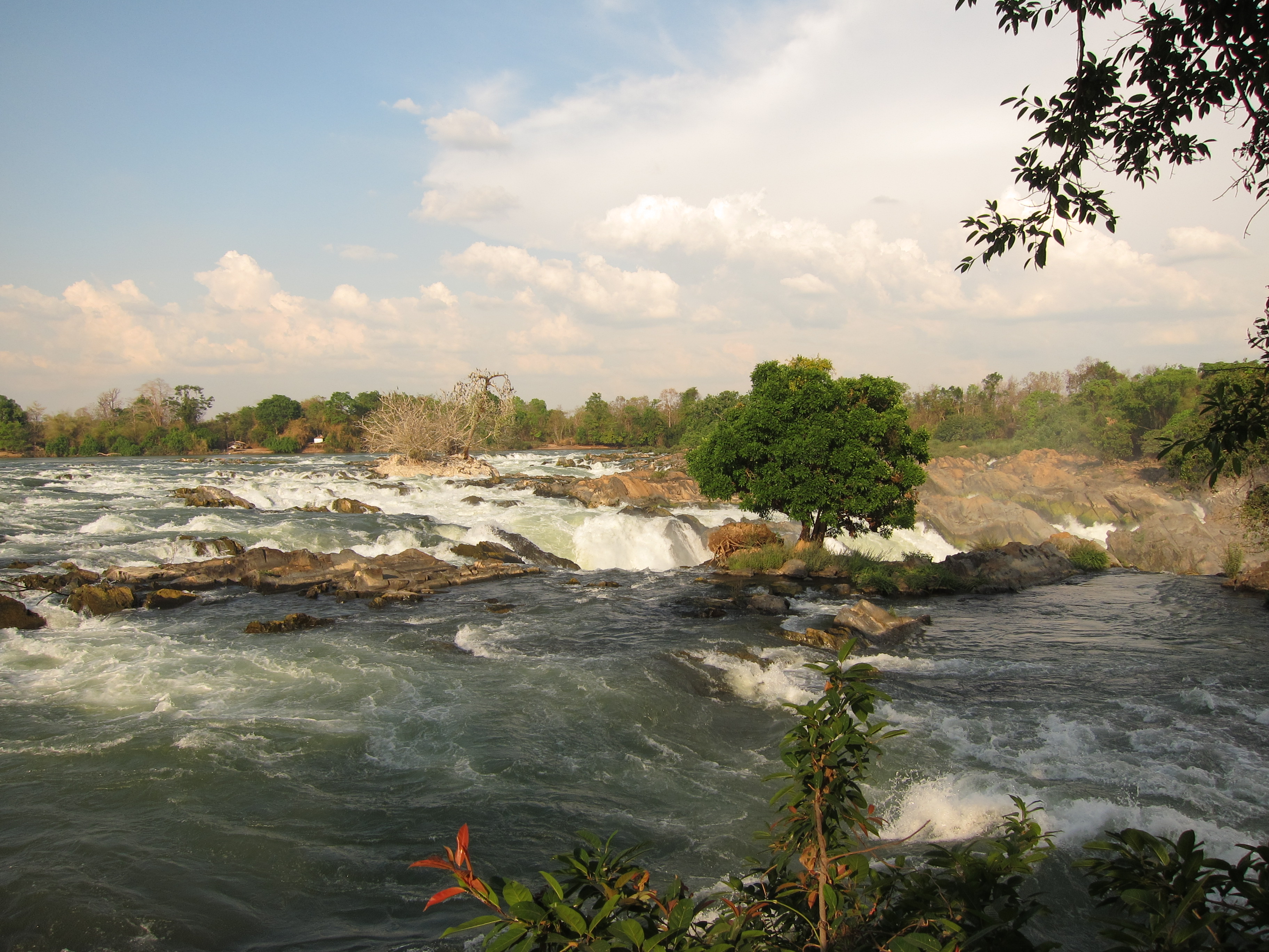 Mekong waterfall (Khon Phapheng Falls)